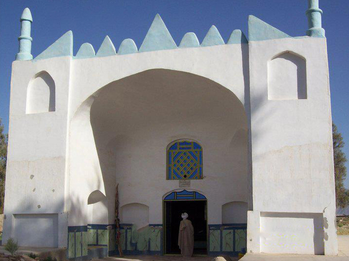 The Holy Tomb of Hazrat Syed Muhammad Jaunpuri Mahdi Mau'ood(AS)